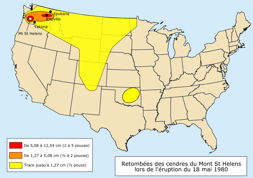 Distribution of ash following the eruption of Mount St Helens on May 18, 1980.